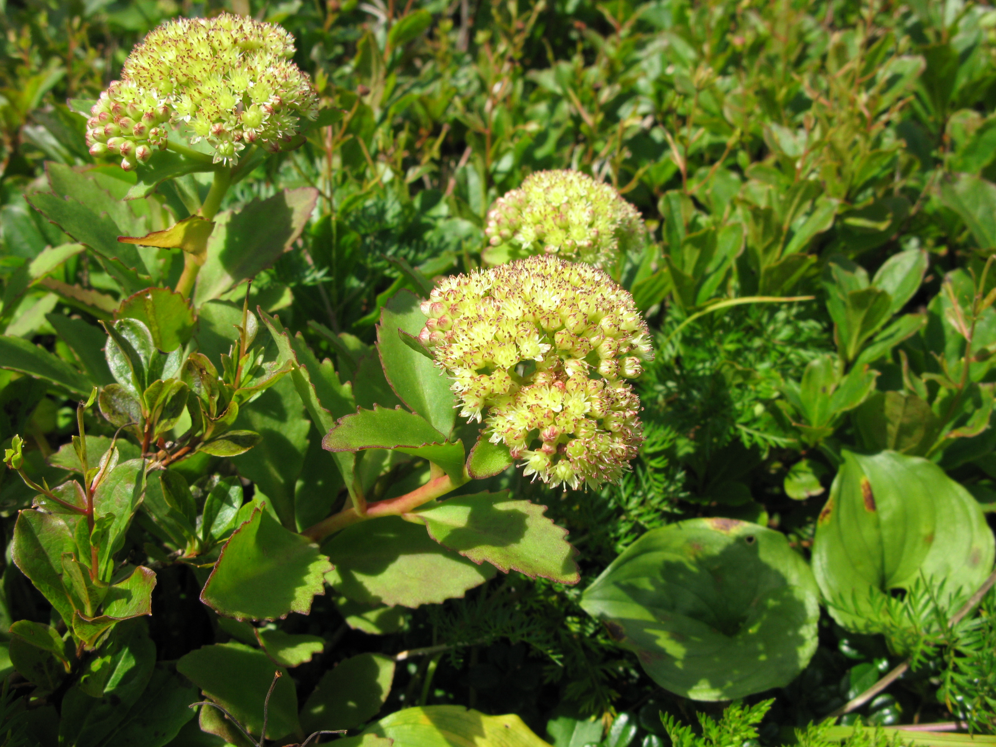 Hylotelephium sordidum ,Mt. Iide, Fukushima pref., Japan